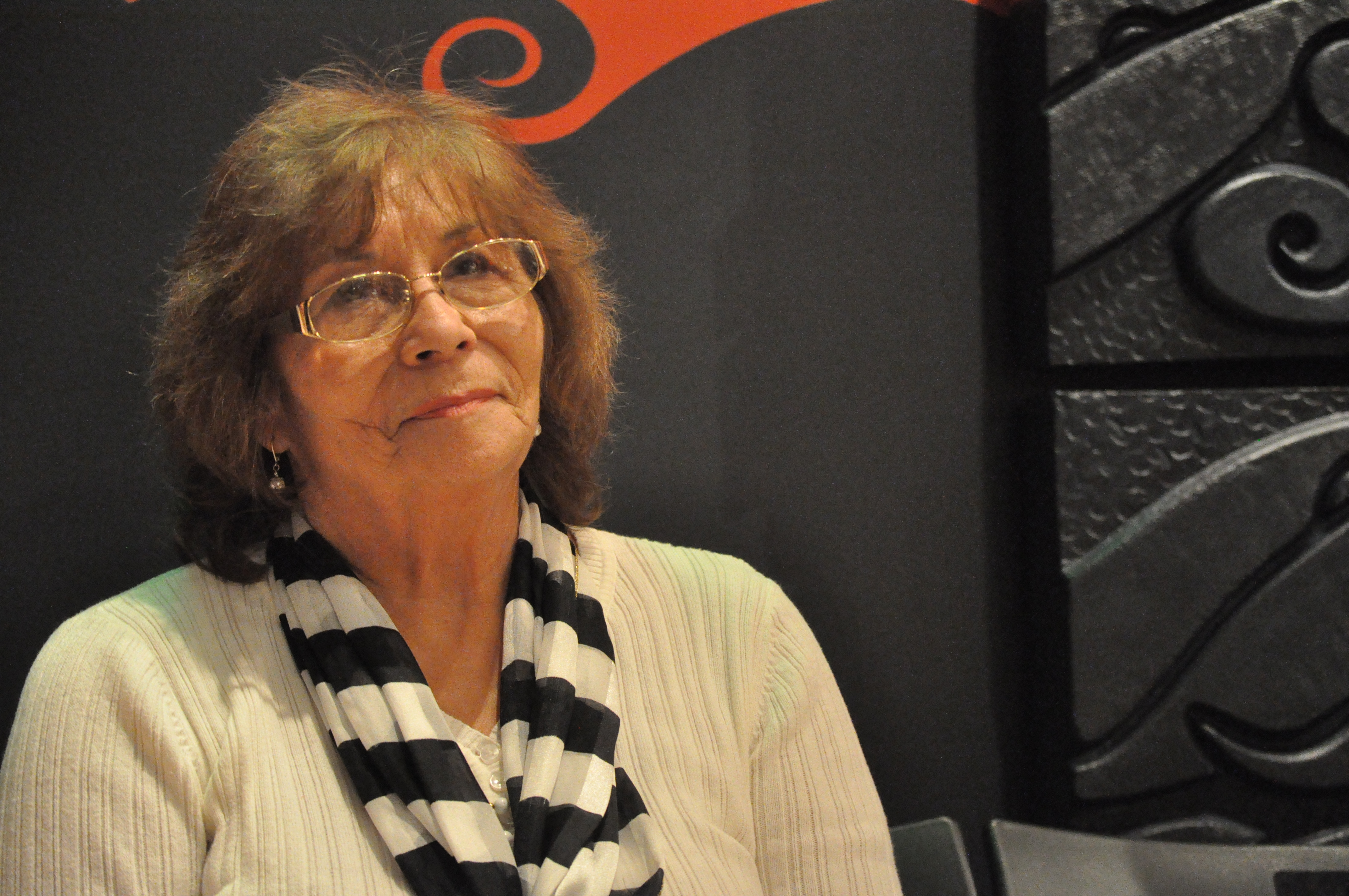 Cecile Hansen, great great grandniece of Chief Sealth, has been the elected chair of the Duwamish tribe since 1975, founder and the current (as of 2010) president of Duwamish Tribal Services, speaking at the